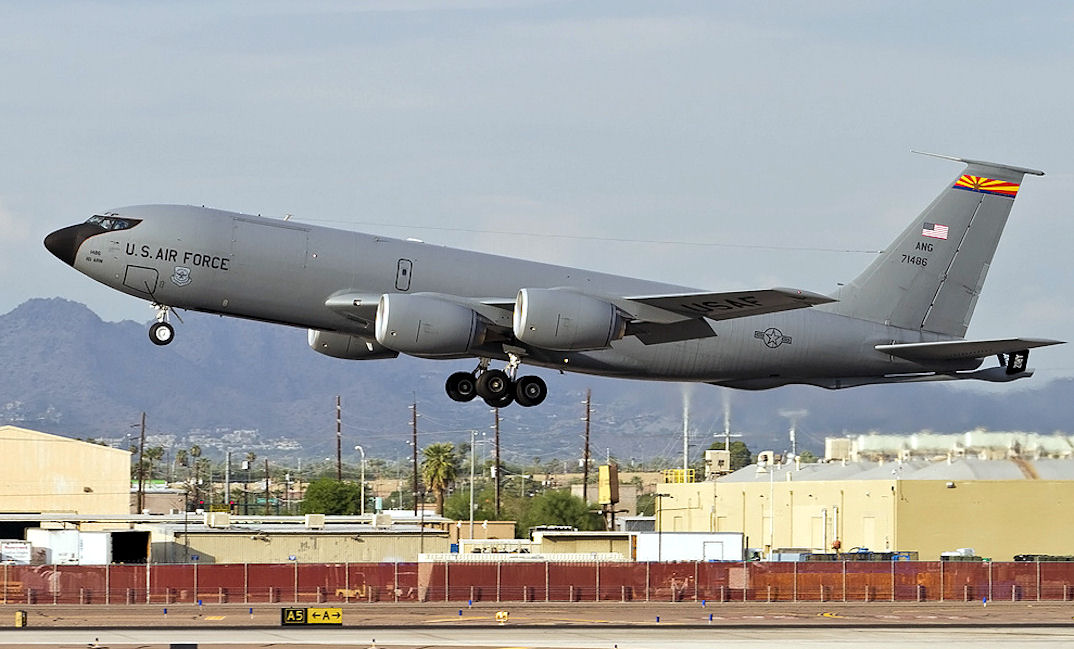 197th Air Refueling Squadron - KC-135R 57-1486